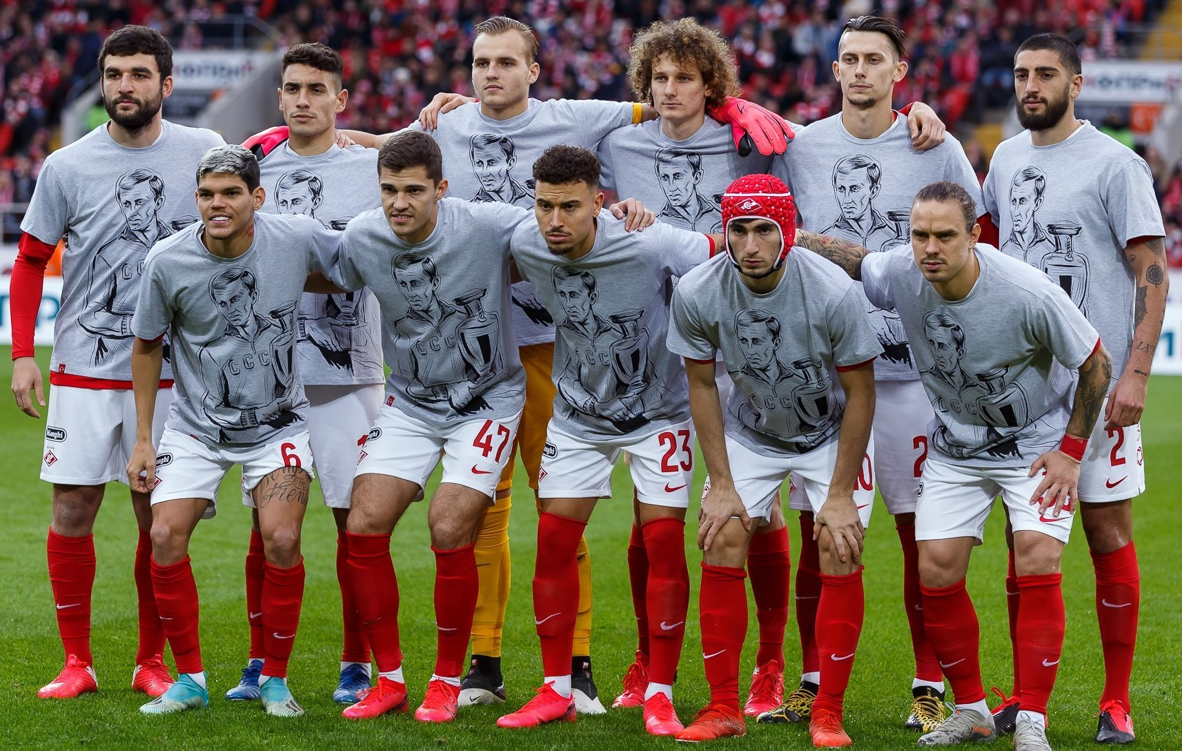 FC Spartak Moscow players in a game against FC Krasnodar